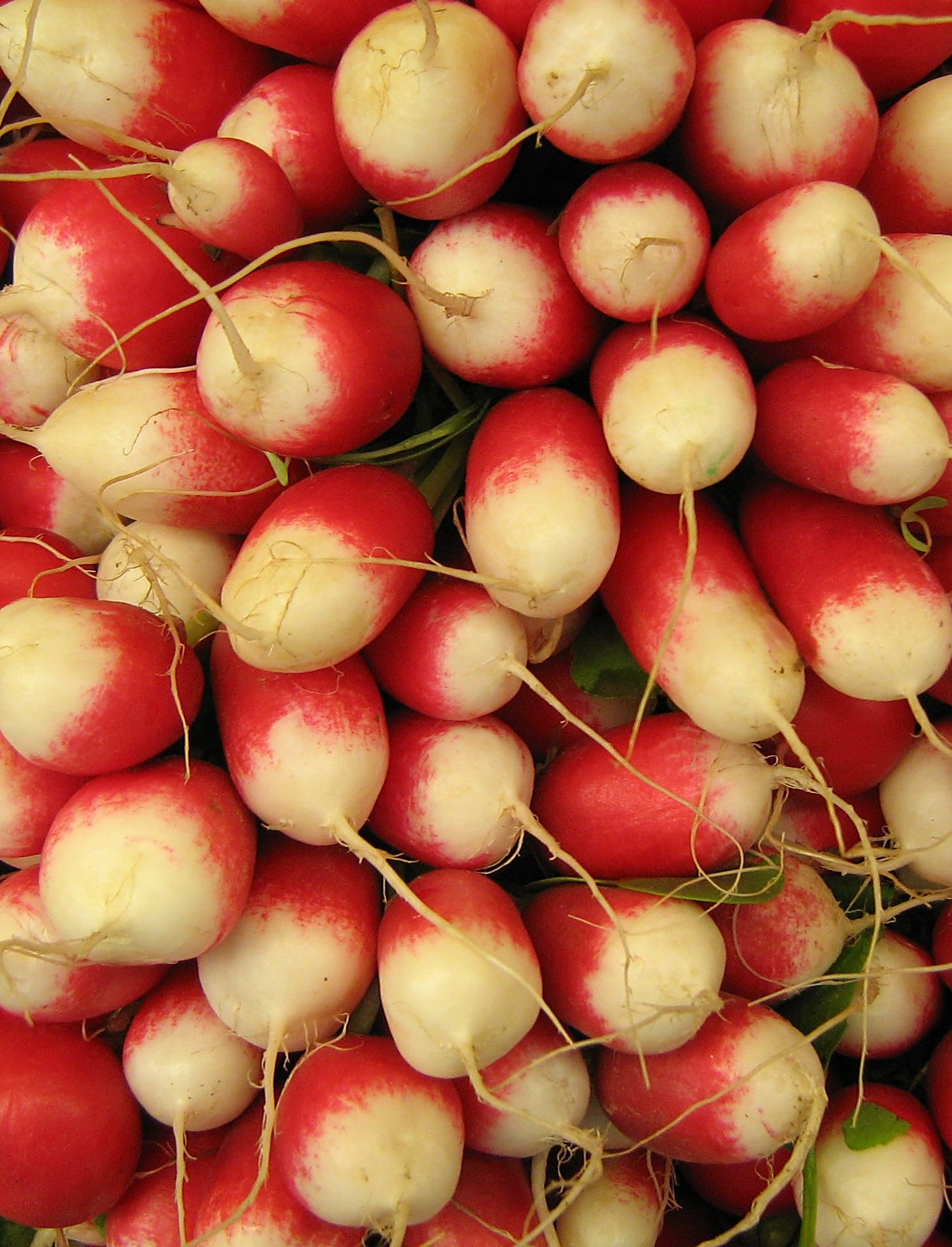 A bunch of radishes